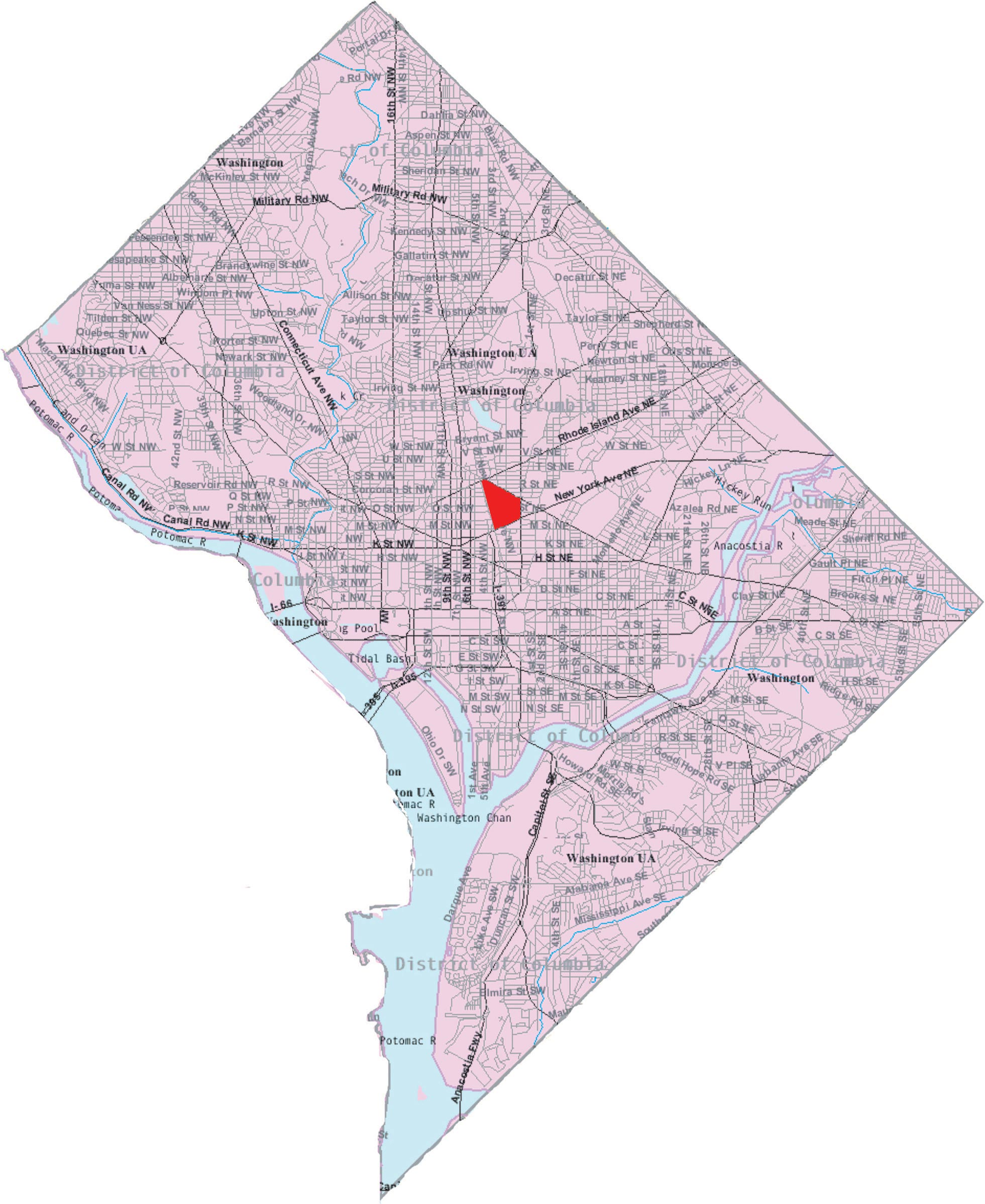 This image is a modified version of a self-generated reference map from the U.S. Census Bureau's American Factfinder at by Wikipedia user Msclguru.